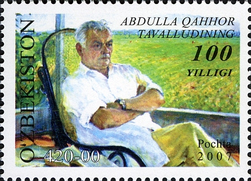 Stamps of Uzbekistan, 2007